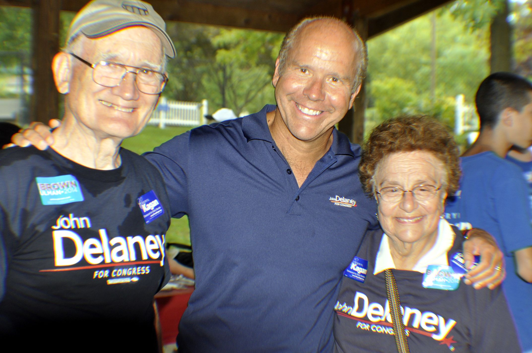 2014-Labor Day-4914